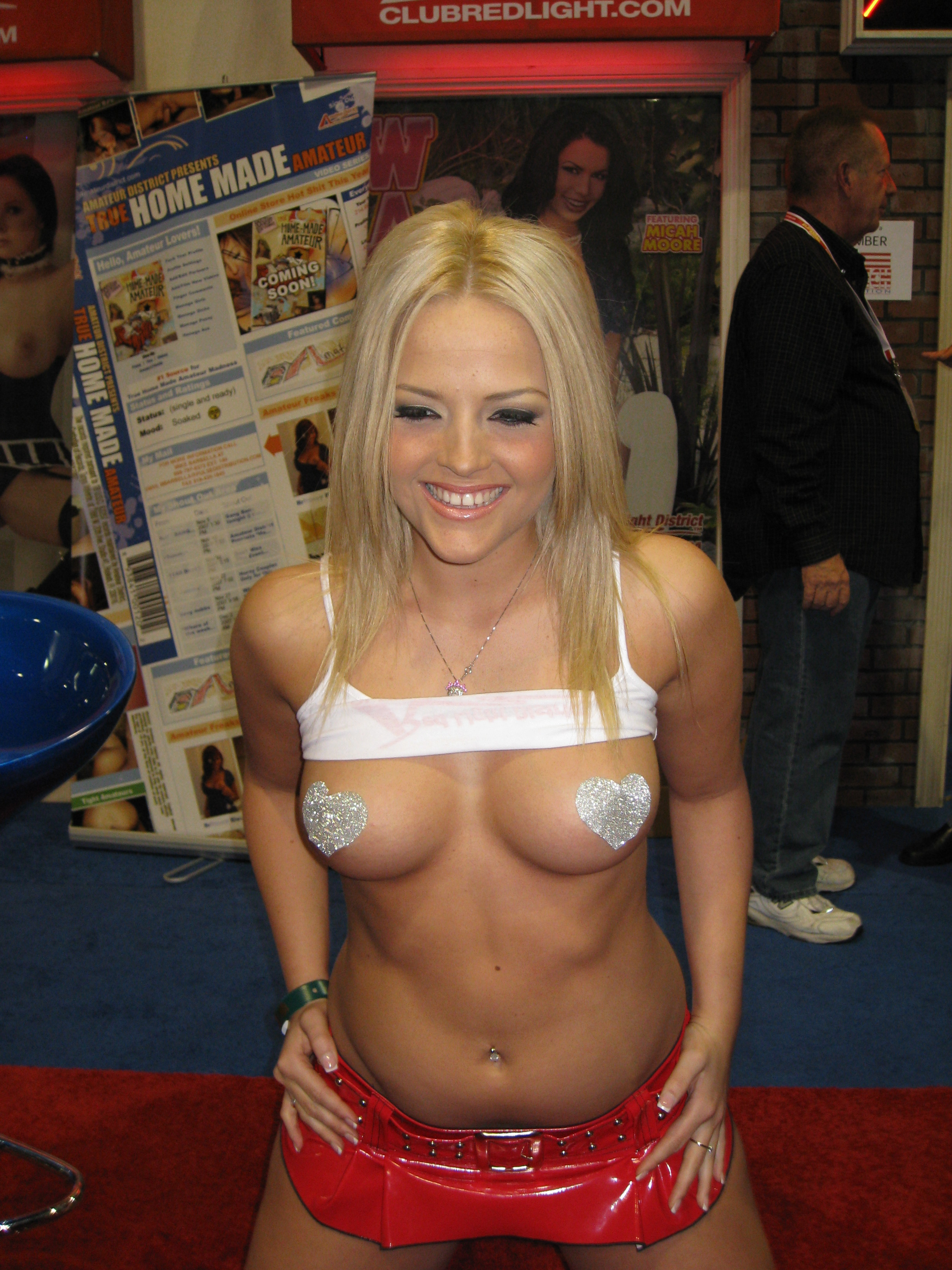 Alexis Texas wears a red miniskirt and a white top that lets her breasts exposed on the AVN expo 2008. AEE2008_Day2 155